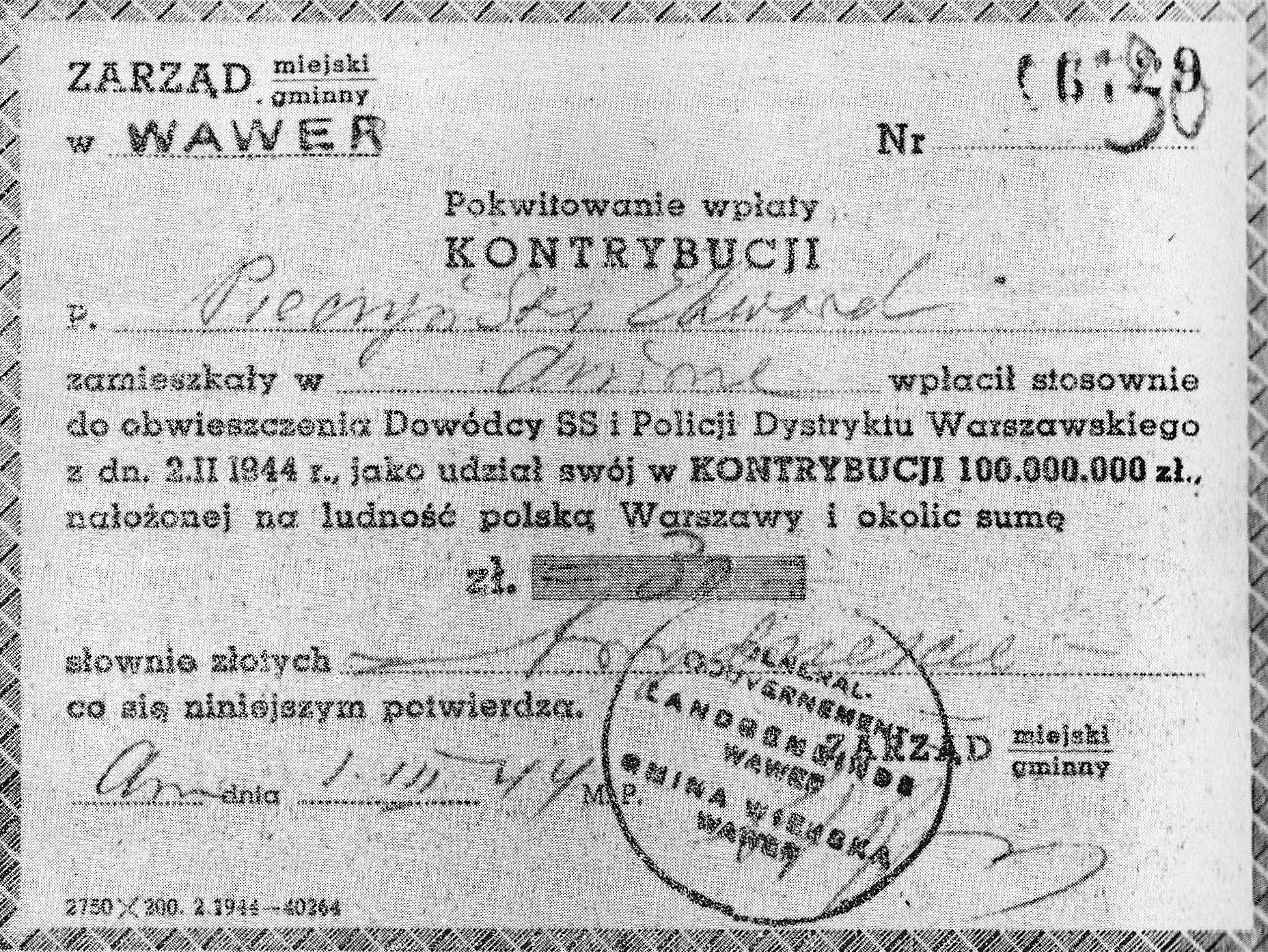 Payment receipt for a Wawer commune inhabitant 30 złoty reparation payment imposed by the German occupation forces after successful assassination of Franz Kutschera